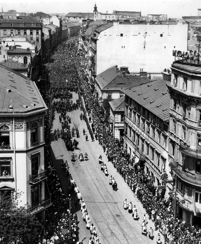 Funeral of Bronisław Pieracki in Warsaw (Nowy Świat Street).